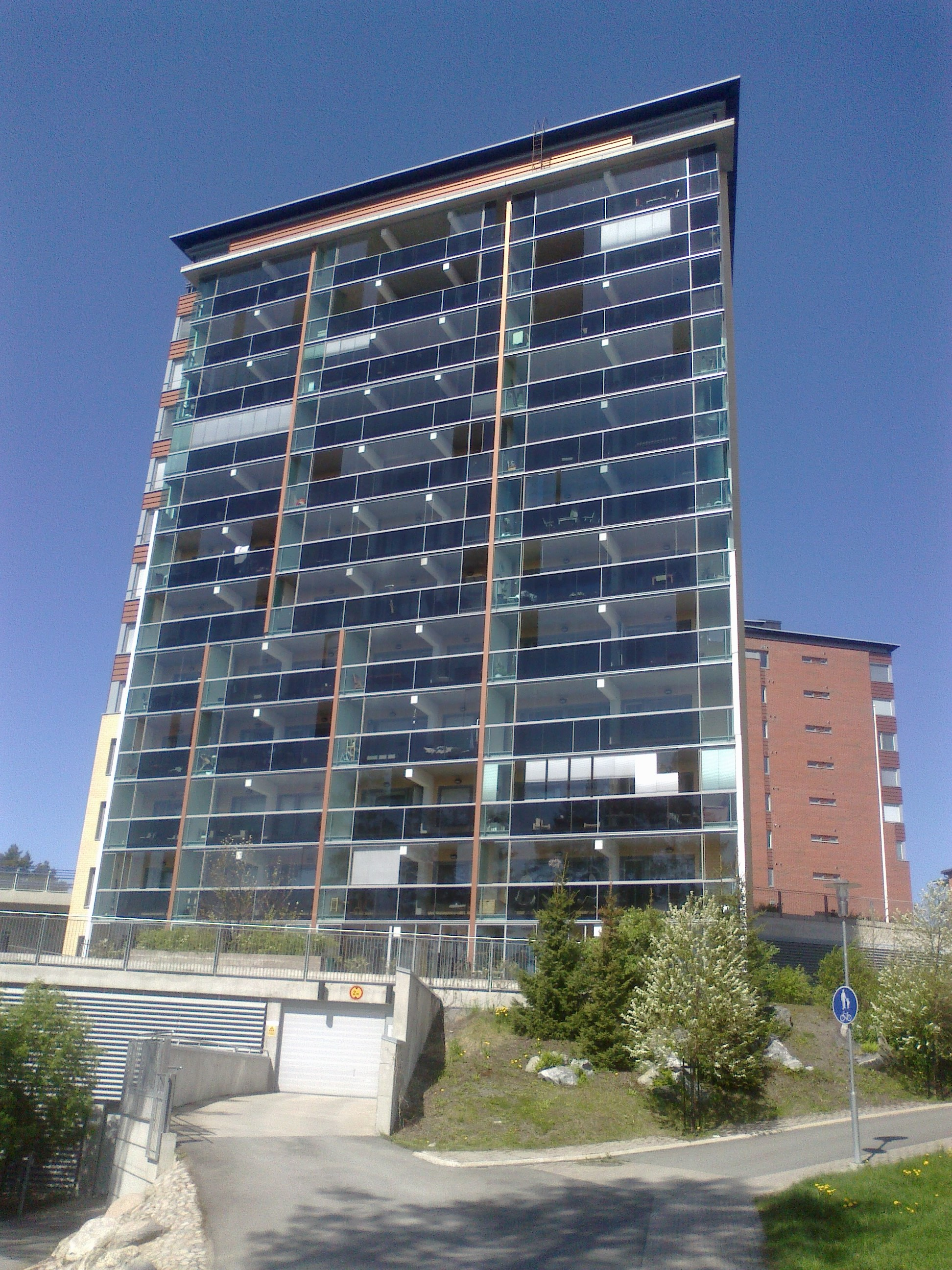 An apartment house close to the Keilankanta Channel (Lake Kallavesi) in Kuopio, Finland